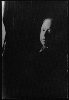 Robert Morss Lovett, American academic, writer, editor, political activist, and government official